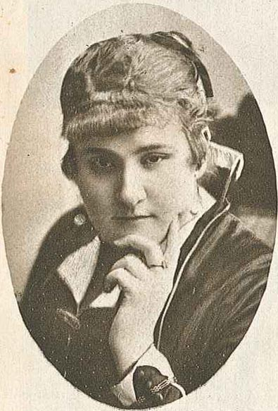 Kajsa Ranft (1894-1963), Swedish operetta singer; photo taken at the time of her stage debut.